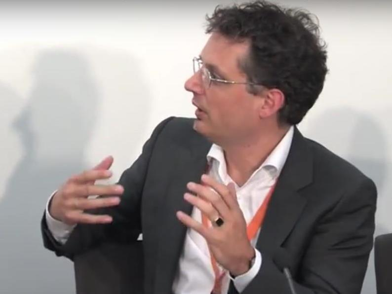 Antal van den Bosch speaking at OCLC Plenary Discussion on Supporting Change in Research (Nov. 2014)